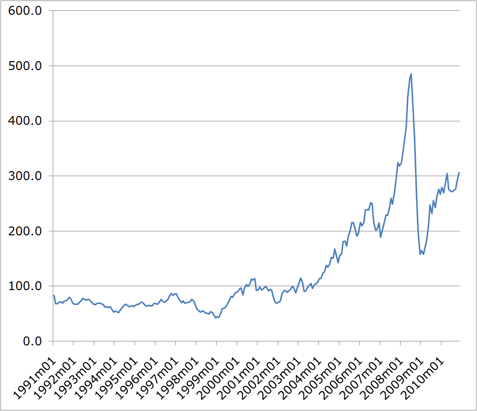 World Energy prices, 1991-2010. 2000=100. Source: World Trade Monitor, CPB Netherlands Bureau for Economic Policy Analysis[1]